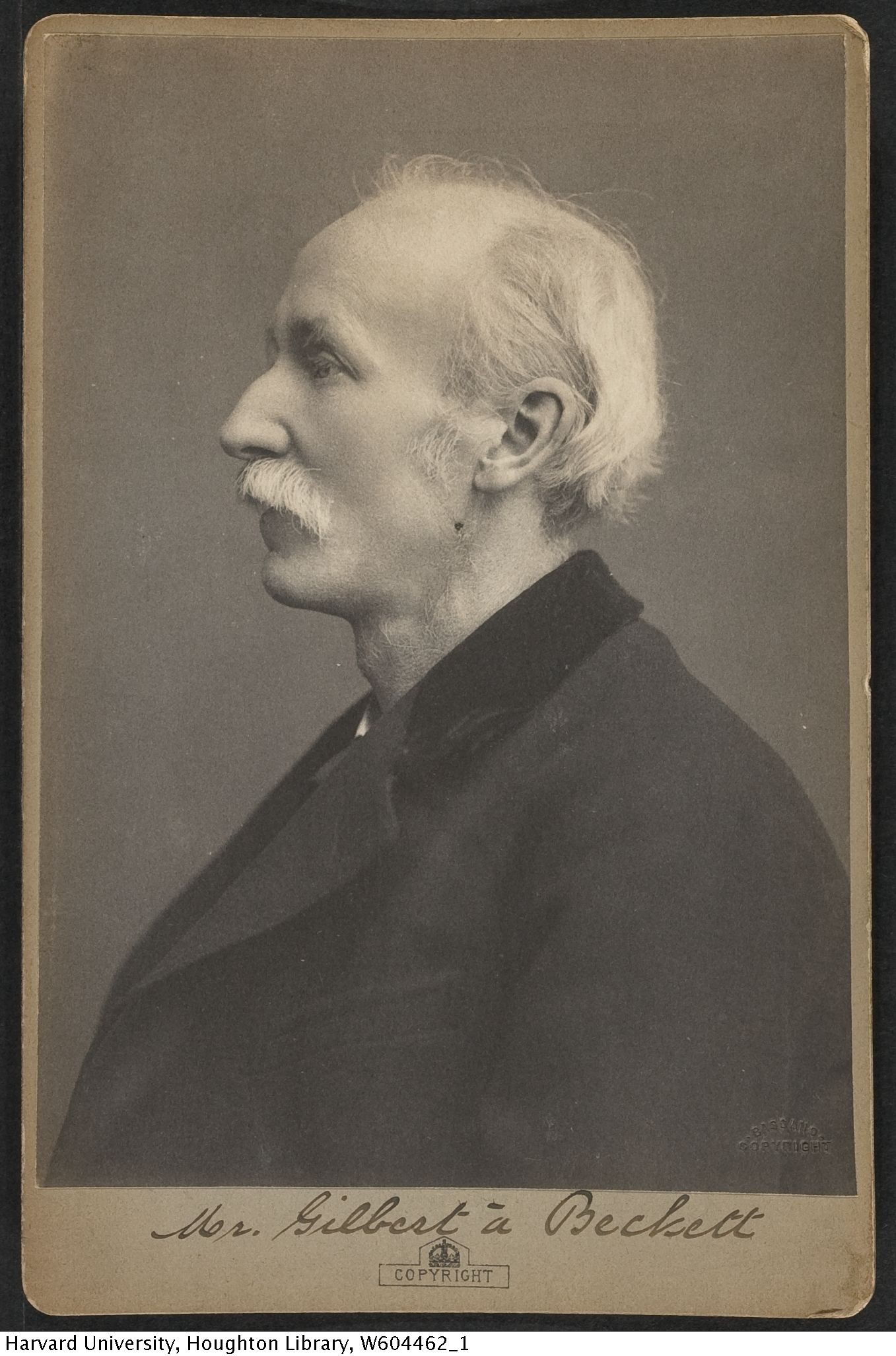 Cabinet card image of English writer Gilbert A. Beckett (1837-1891). TCS 1.20, Harvard Theatre Collection, Harvard University